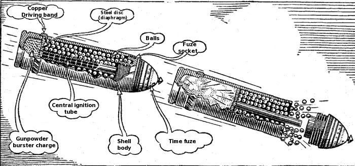 Diagram showing bursting of shrapnel shell. Action : Time fuze activates, and sends a flash down the central tube. Gunpowder burster charge in the base ignites, exerts pressure on the steel disc (diaphragm). The pressure blows the fuze and its socket off the top of the shell. The steel disk, central tube and balls are blown forward out of the shell body. Fuze, shell body, disc and tube drop to the ground. Bullets continue in expanding cone towards the target.